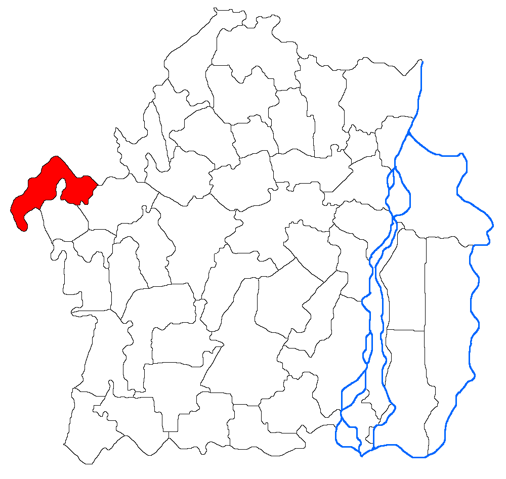 Limits of Commune of Galbenu in Braila County